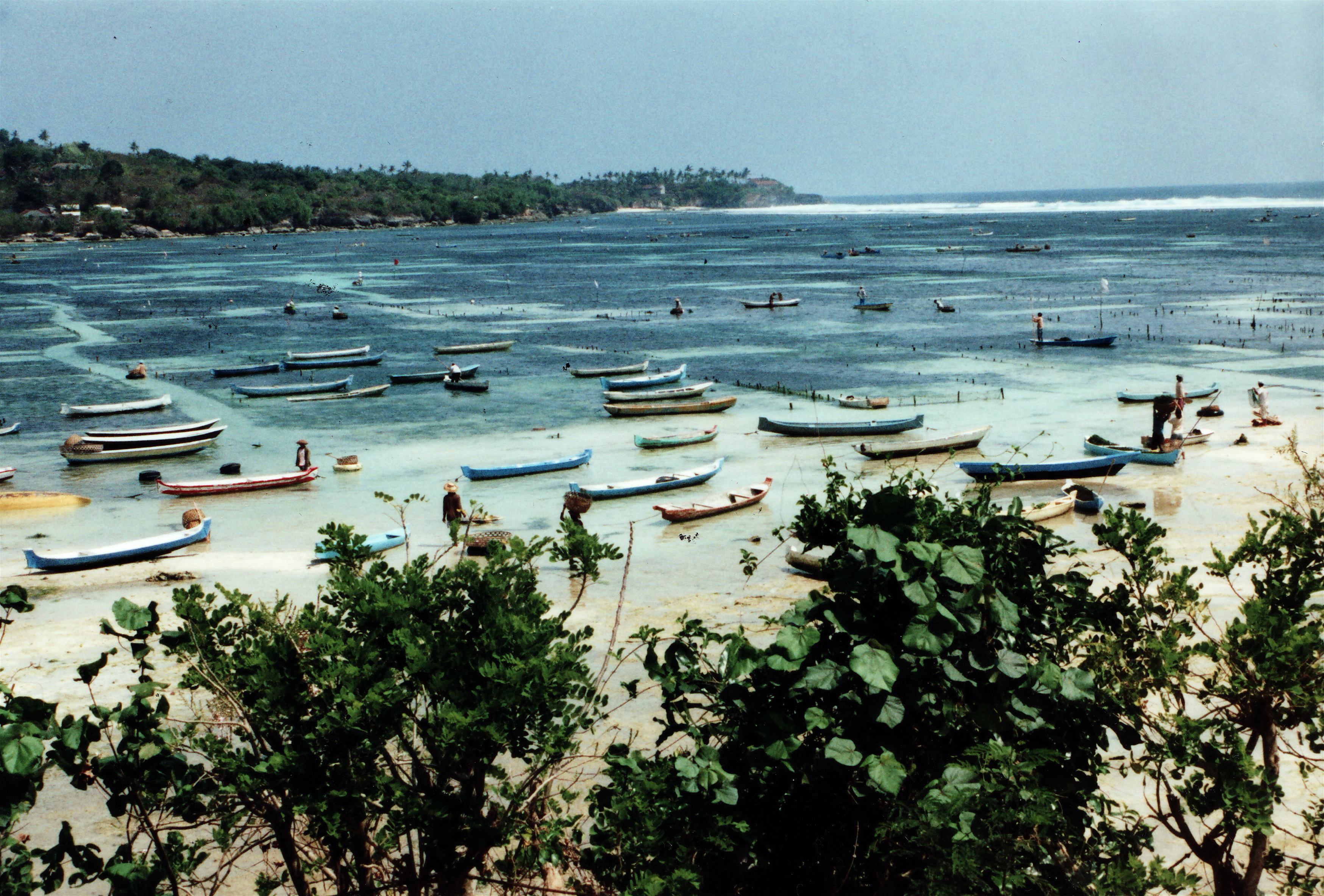 These are seaweed farms. Each rectangle of seaweed is owned by a different family. Here they are cultivating the seaweed and placing them into the little boats to bring back to shore.